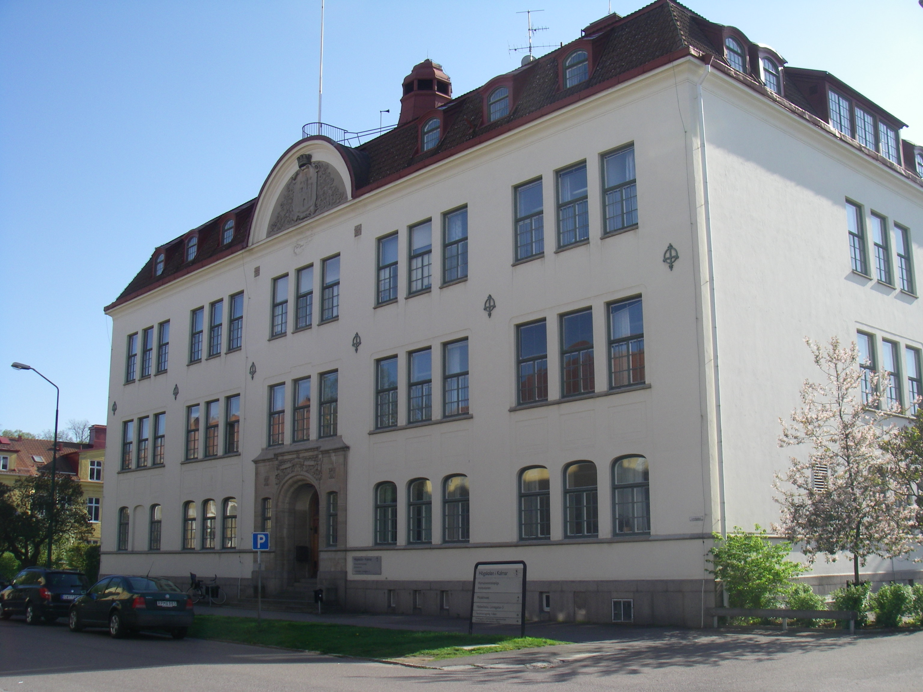 Kalmar university, Institution of human science.